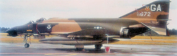 F-4D 65-0672, 4452 CCTS, George Air Force Base.